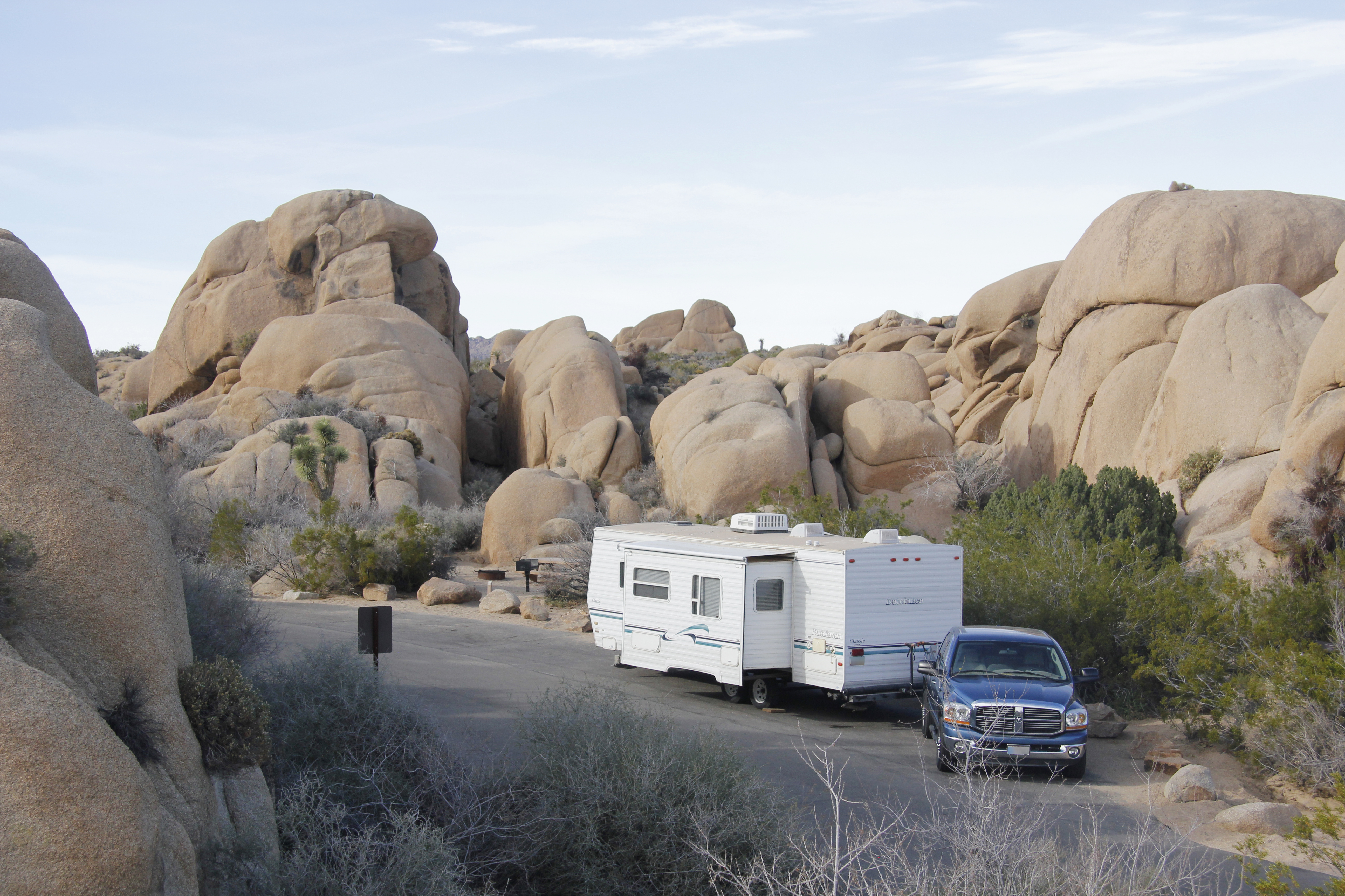 Jumbo Rocks Campground is centrally located and offers great opportunities for scrambling around the boulders Joshua Tree National Park is known for. Skull Rock Nature Trail loops near the campground, leading visitors among the rock features and native plants of the area. There are 124 individual/family sites in this campground. All are first come, first served.